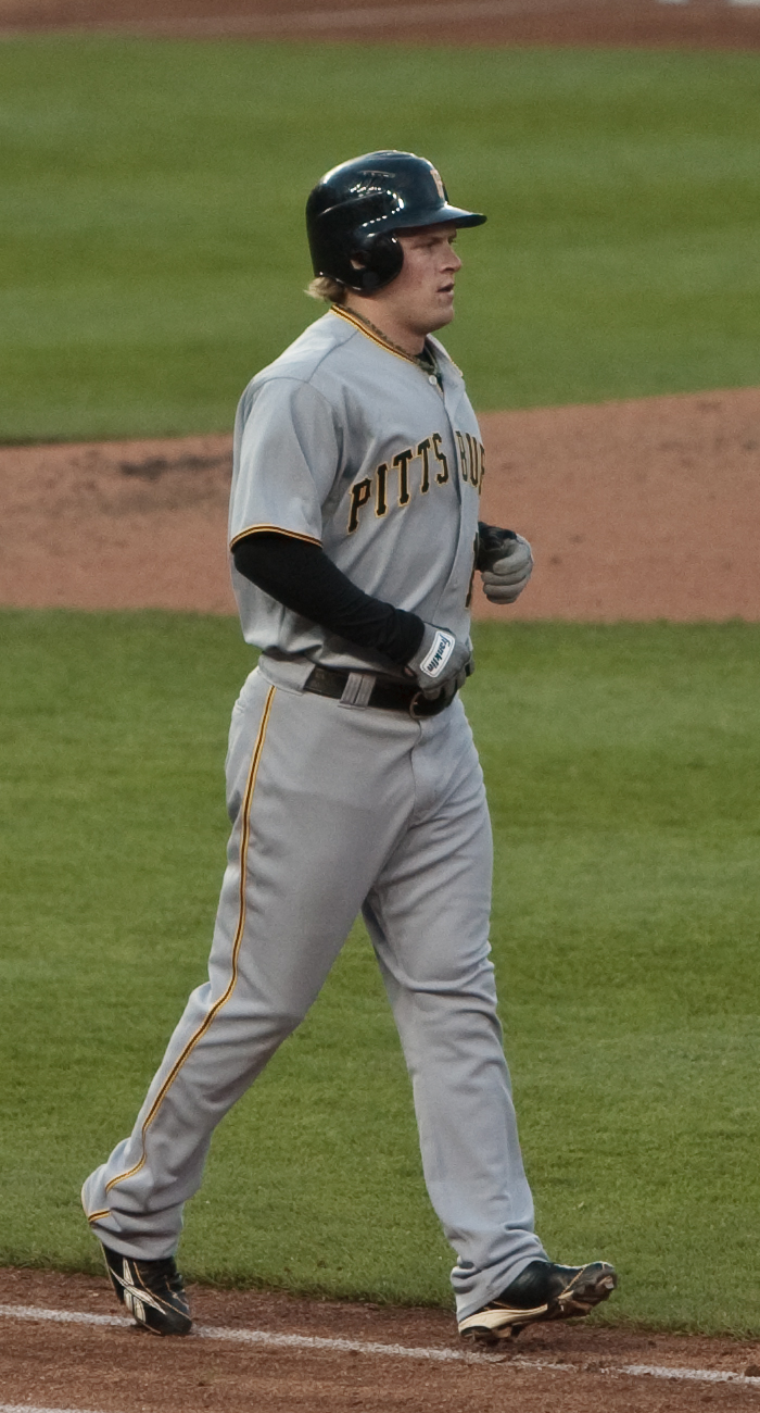 Nate McLouth